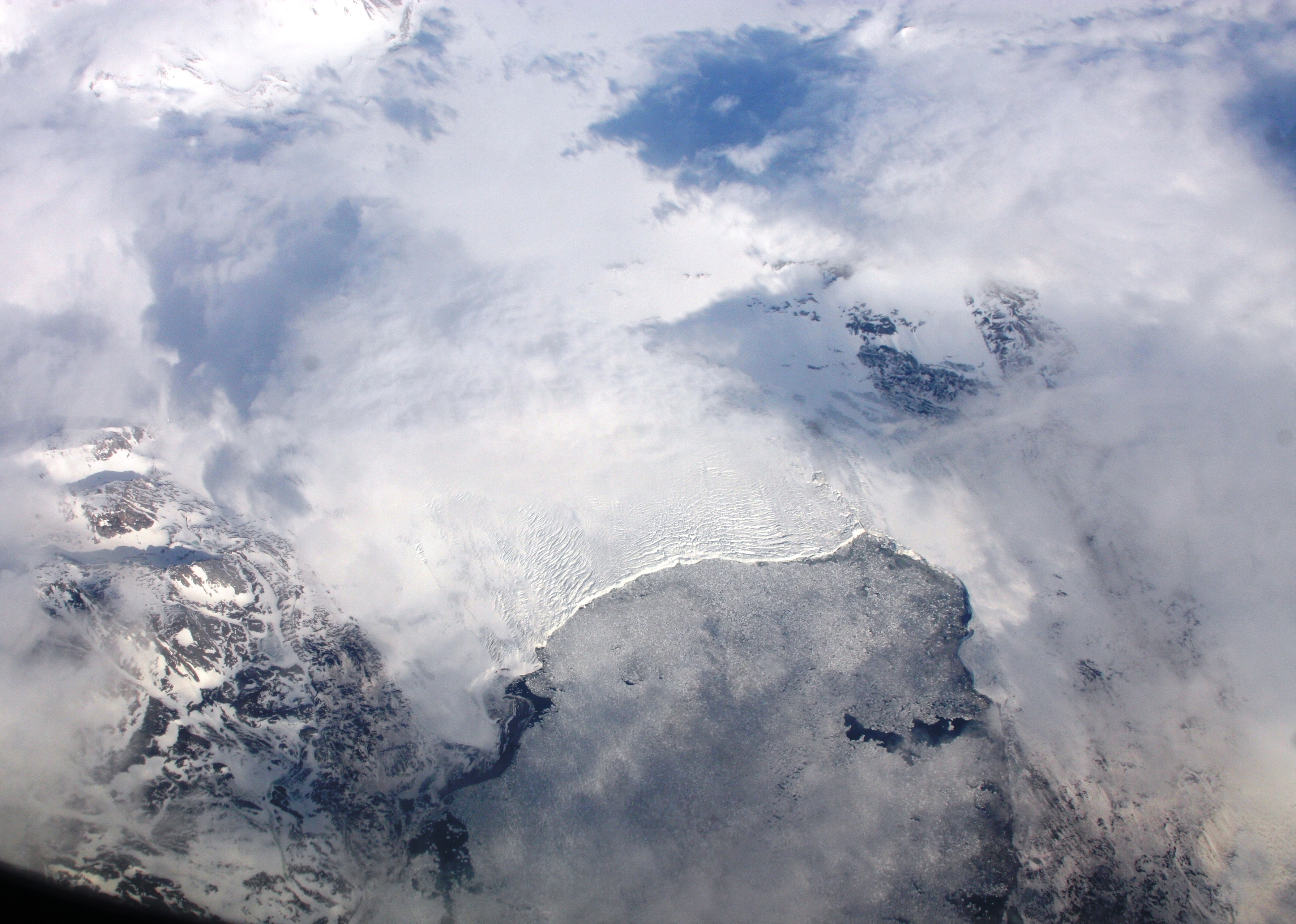 Photo taken in late April